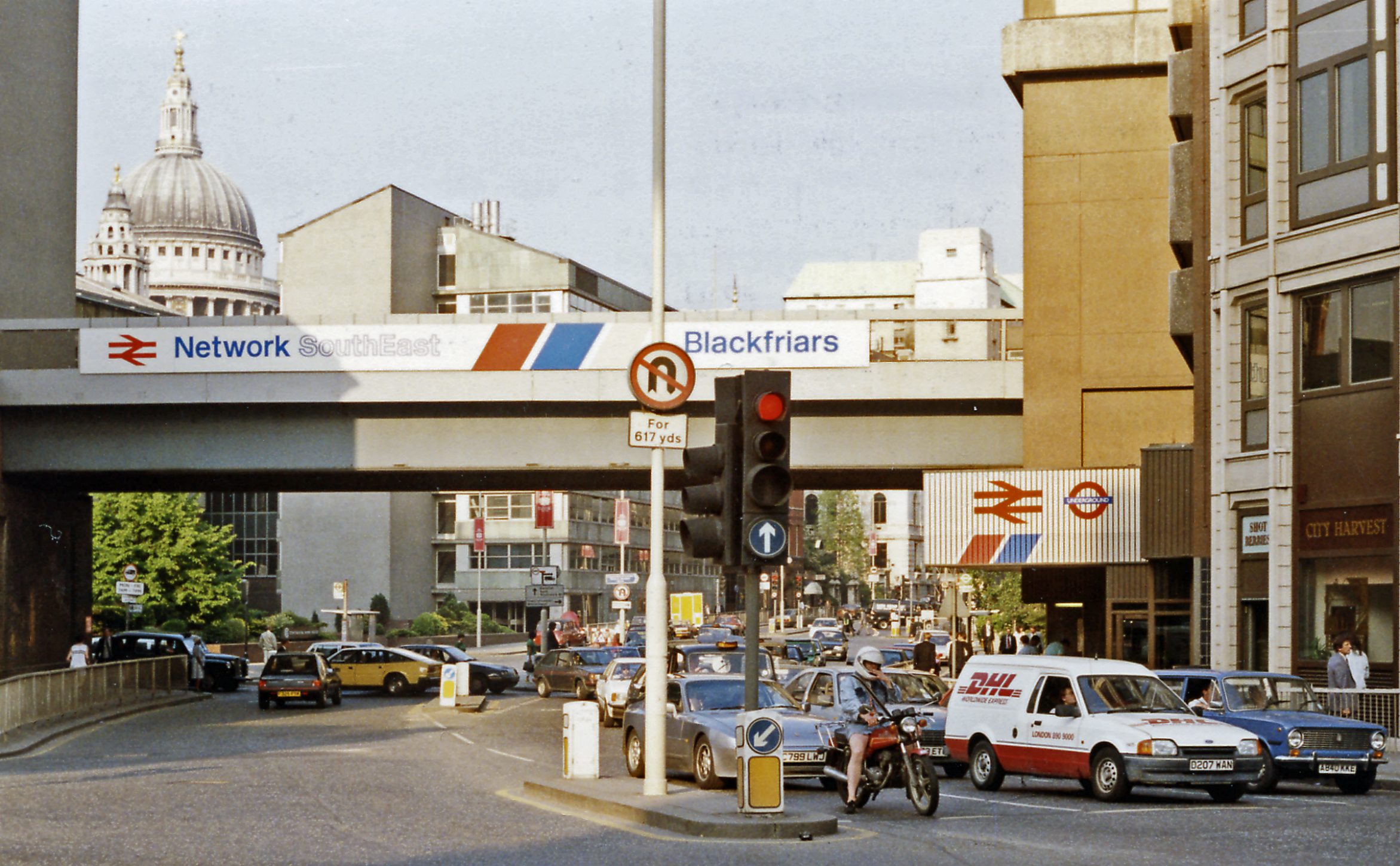 Outside Blackfriars Station, up Queen Victoria Street from New Bridge Street, 1989. View eastwards, with entrances on the right to the main (ex-SE&CR and Thameslink) and LT District and Circle Line) stations. The Thameslink service commenced in May 1988 and the bridge is now carrying Thameslink trains to/from Farringdon, King's Cross St Pancras, Luton and Bedford. (City Thameslink station was not yet built - it opened 29/5/90). St Paul's Cathedral is prominent on the left.